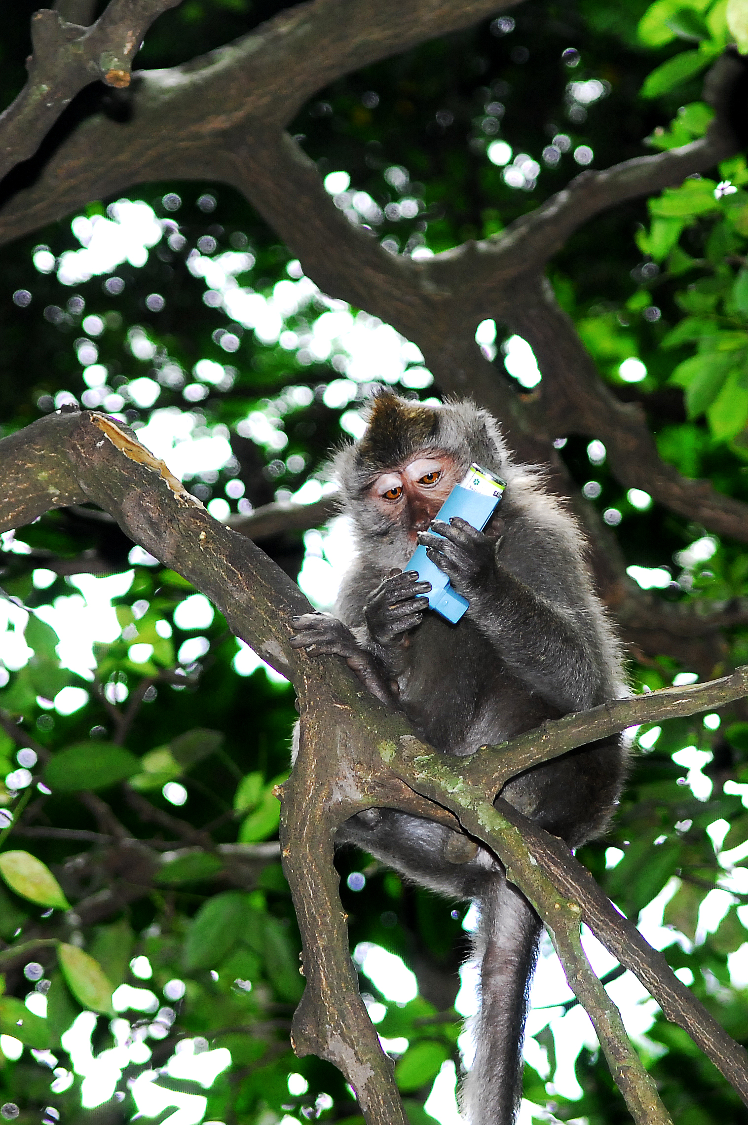 Monkey with a Ventolin inhalerin Bali, Indonesia.